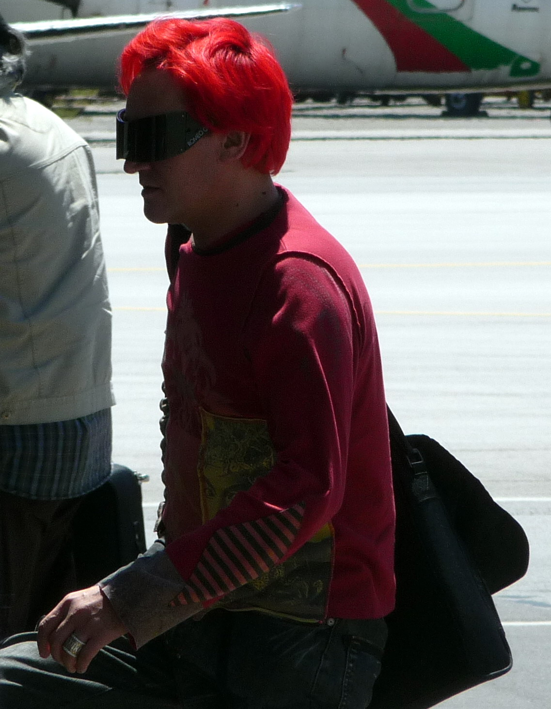 Michał Wiśniewski